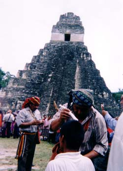 Maya priest performing a healing cermony at the ruins of Tikal, Guatemala. Attribute to: "Bob Makransky